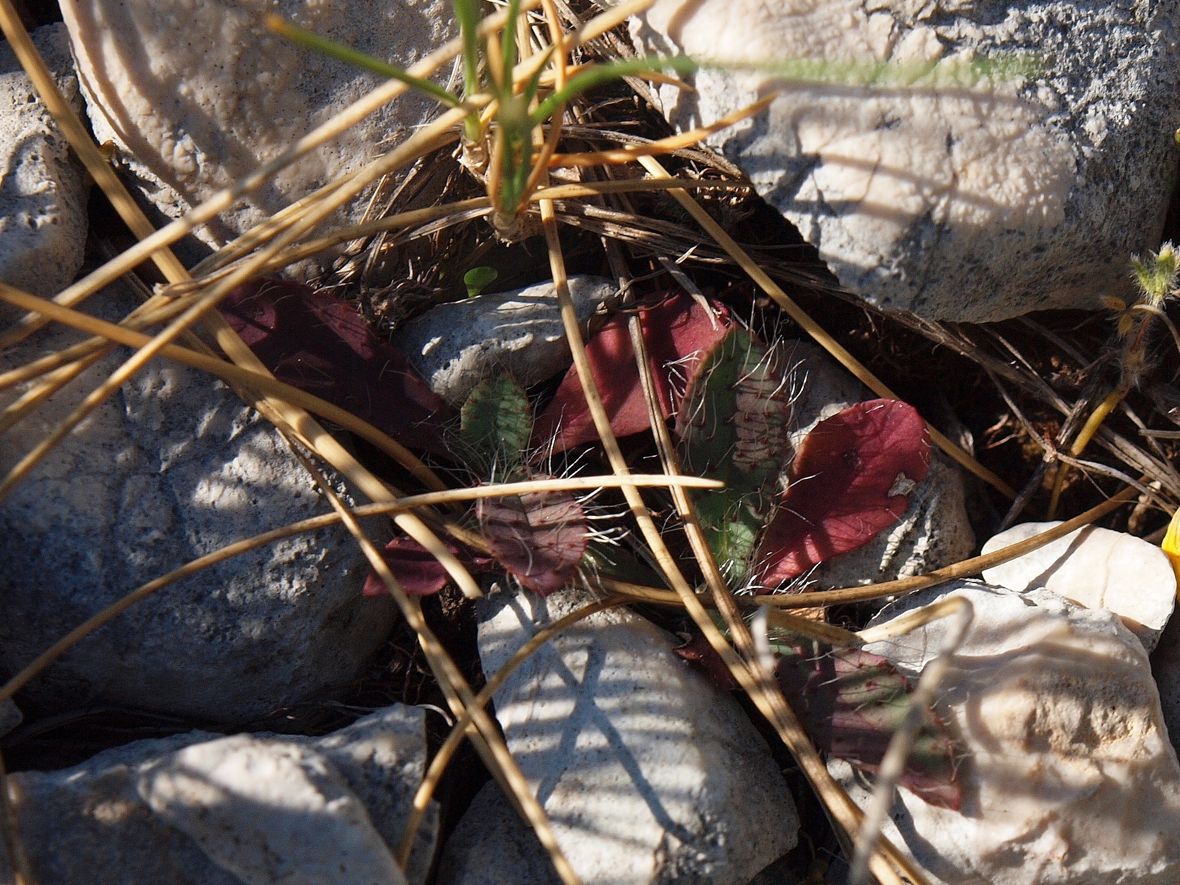 Florentiner Habichtskraut